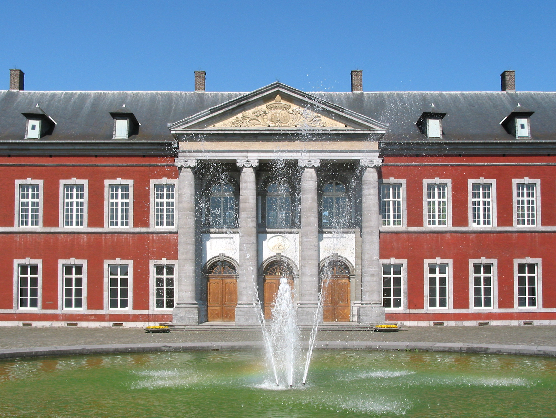 Gembloux (Belgium), main building of the former abbey (1779 - architect: Laurent-Benoît Dewez) currently occupied by the University Faculty of agronomic sciences.